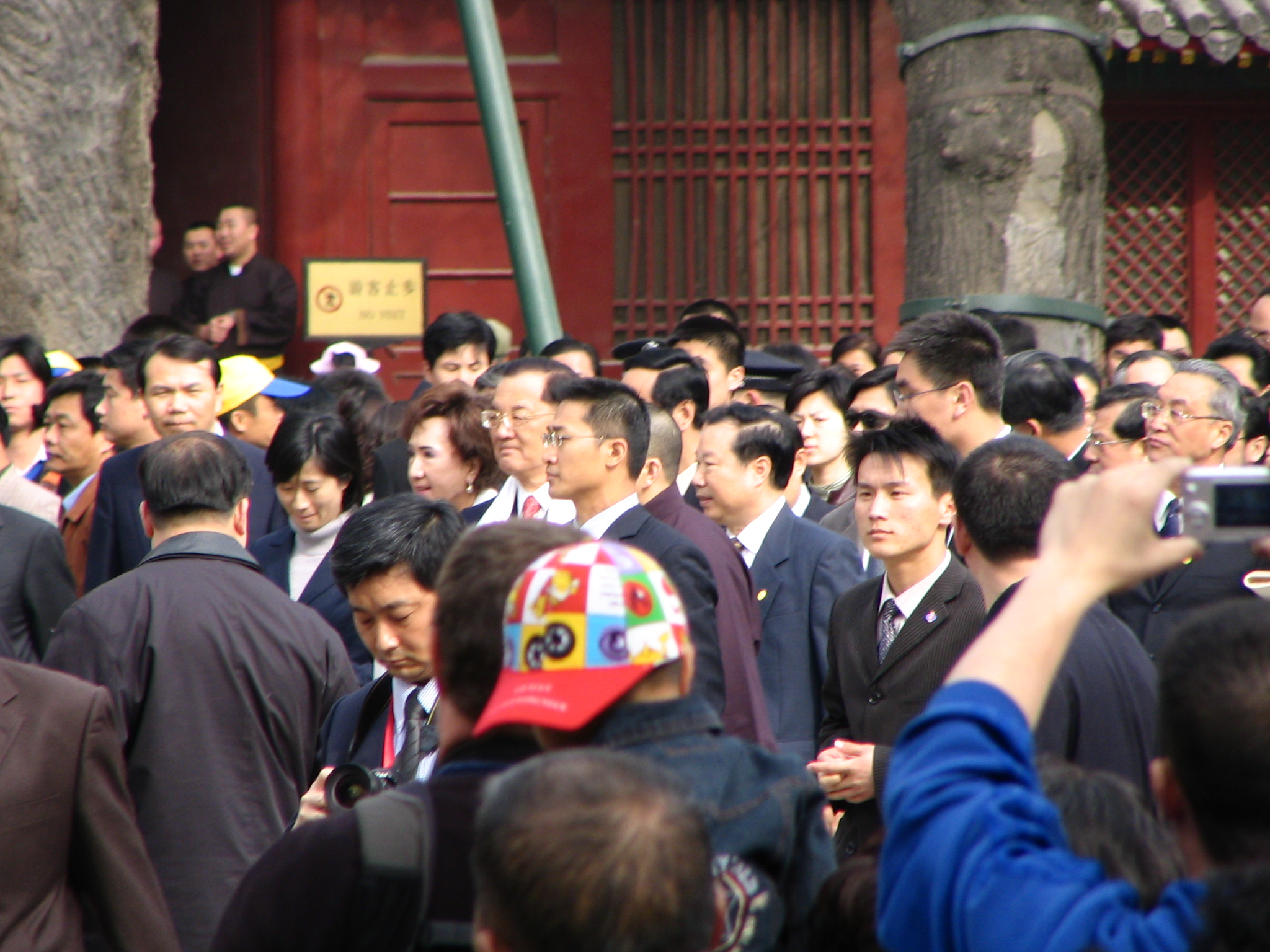 The Kuomintang president Lien Chan with his wife Lien Fangyu and a lama bouddhist monk in the Yonghe gong Beijing tibetan monaster. april 16, 2006. Le président du Guomindang taïwanais Lien Chan avec sa femme Lien Fangyu et un moine bouddhiste, dans le temple tibétain Yonghe gong, à Pékin, lors d'une visite officielle, le 16 avril 2006